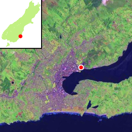 Map showing location of Forsyth Barr Stadium at University Plaza, Dunedin, New Zealand. Based on NASA satellite map